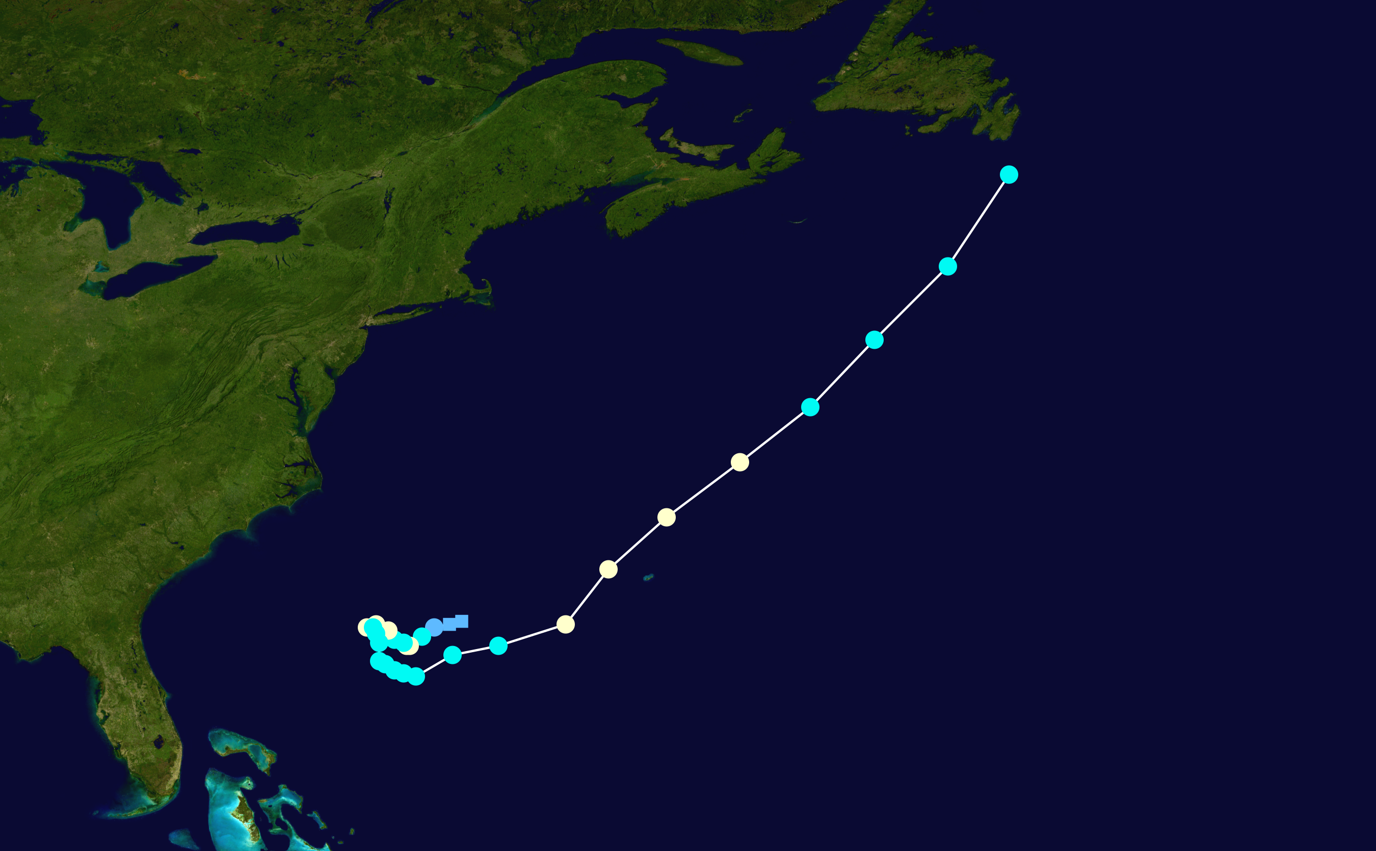 Track map of Hurricane Florence of the 2000 Atlantic hurricane season. The points show the location of the storm at 6-hour intervals. The colour represents the storm's maximum sustained wind speeds as classified in the Saffir–Simpson scale (see below), and the shape of the data points represent the nature of the storm, according to the legend below. Saffir–Simpson scale Tropical depression≤38 mph≤62 km/h Category 3111–129 mph178–208 km/h Tropical storm39–73 mph63–118 km/h Category 4130–156 mph209–251 km/h Category 174–95 mph119–153 km/h Category 5≥157 mph≥252 km/h Category 296–110 mph154–177 km/h Unknown Storm type Tropical cyclone Subtropical cyclone Extratropical cyclone / Remnant low / Tropical disturbance